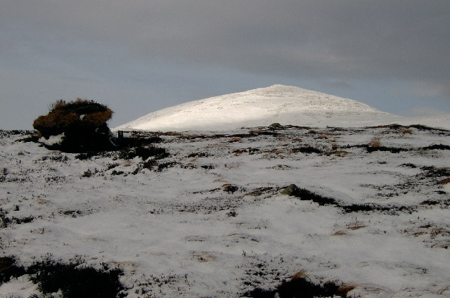 Looking across to Broad Cairn. Note the number to left (a study?)